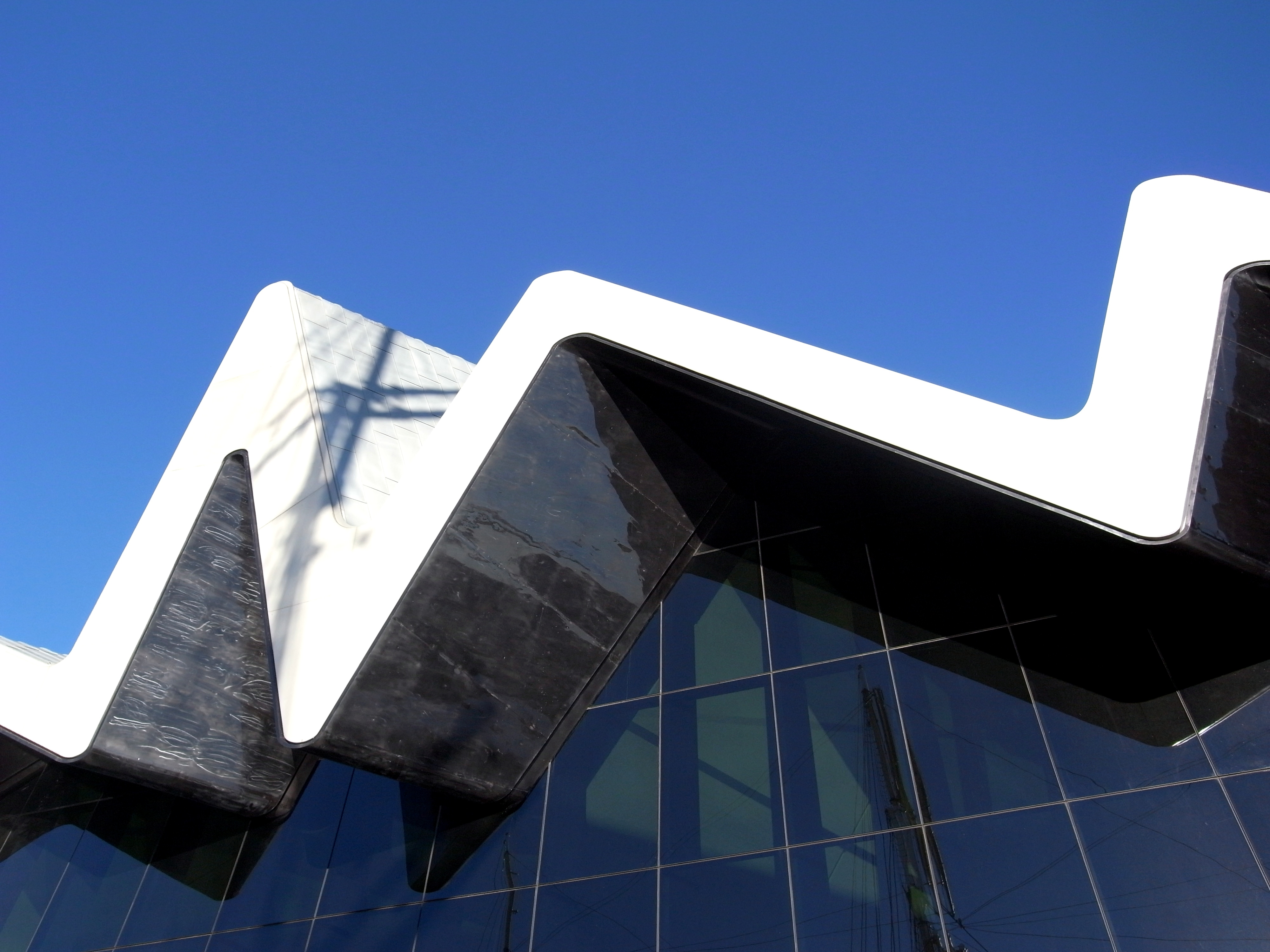 Glasgow. Riverside Museum (2007-2011), designed by Zaha Hadid Architects. Detail of south elevation.